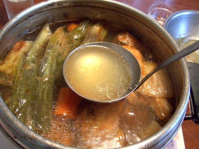 self-made bouillon de volaille (chicken broth).